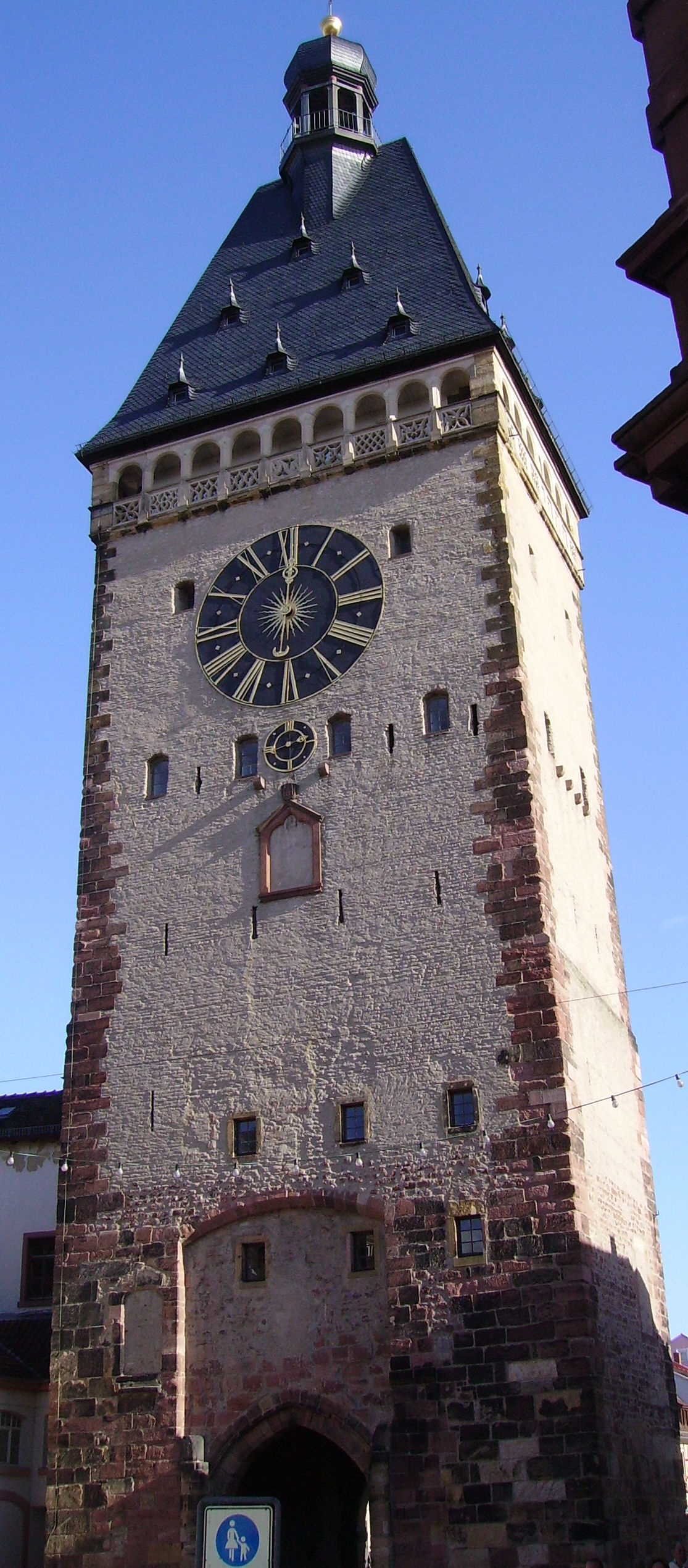 Altpörtel (gate) in Speyer, Germany